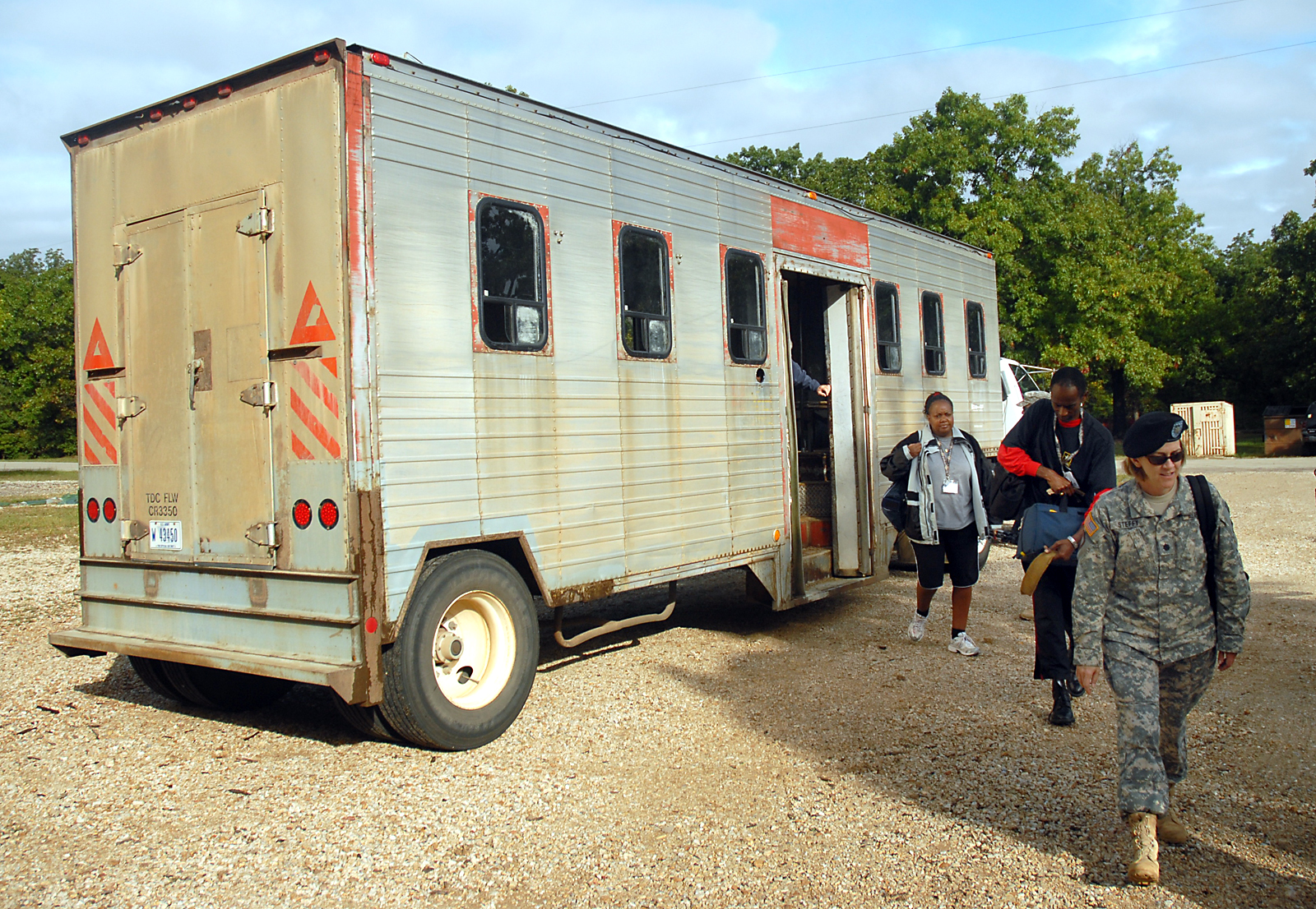 Journalists exit the cattle truck they opted to ride in for an authentic "Army" experience Sept. 22 at Fort Leonard Wood, Mo.